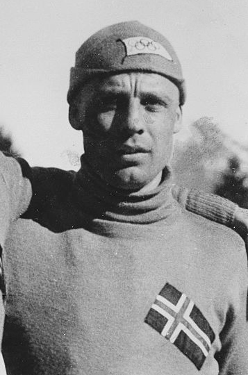 Ivar Ballangrud (left) of Norway and Charles Mathiesen (right) of Norway relax between events. Ballangrud won gold medals in the 500 Metres, 1500 Metres and 10000 Metres and Mathiesen a gold medal in the 5000 Metres Speed Skating events